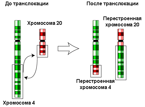 Reciprocal translocation of human chromosome 4 and 20